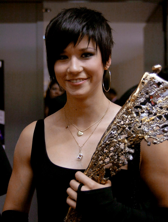 Johanna Ernst, newcomer of the year, at the award show for the Austrian Sportspersonalities of the year 2009.